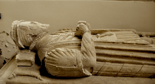 David Lewis, died 1584